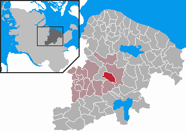 This map shows the area of the Gemeinde (municipality) Schellhorn in the Kreis (district) Plön, Schleswig-Holstein, Germany.